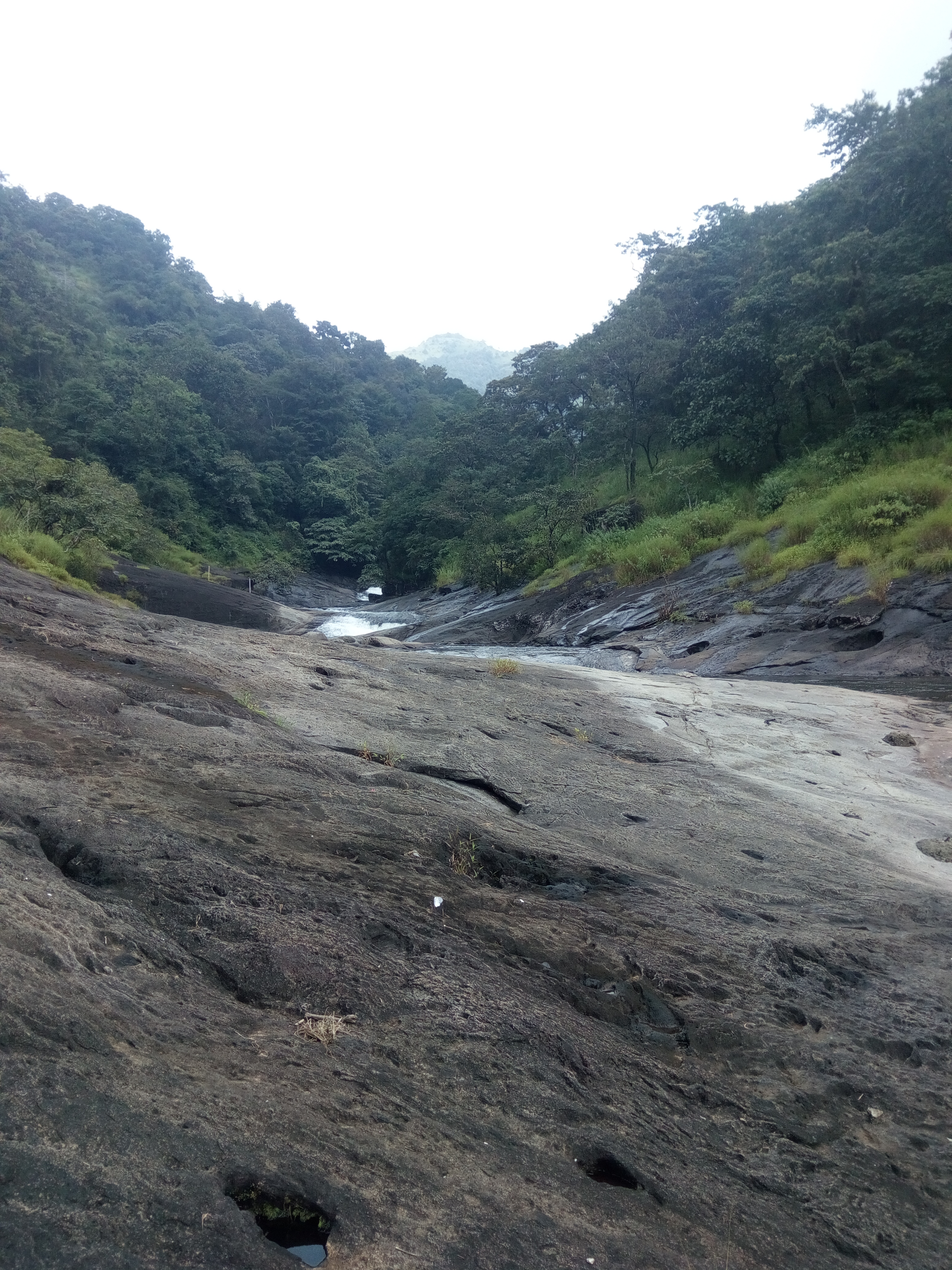 Kozhippara waterfalls is in malappuram dist.